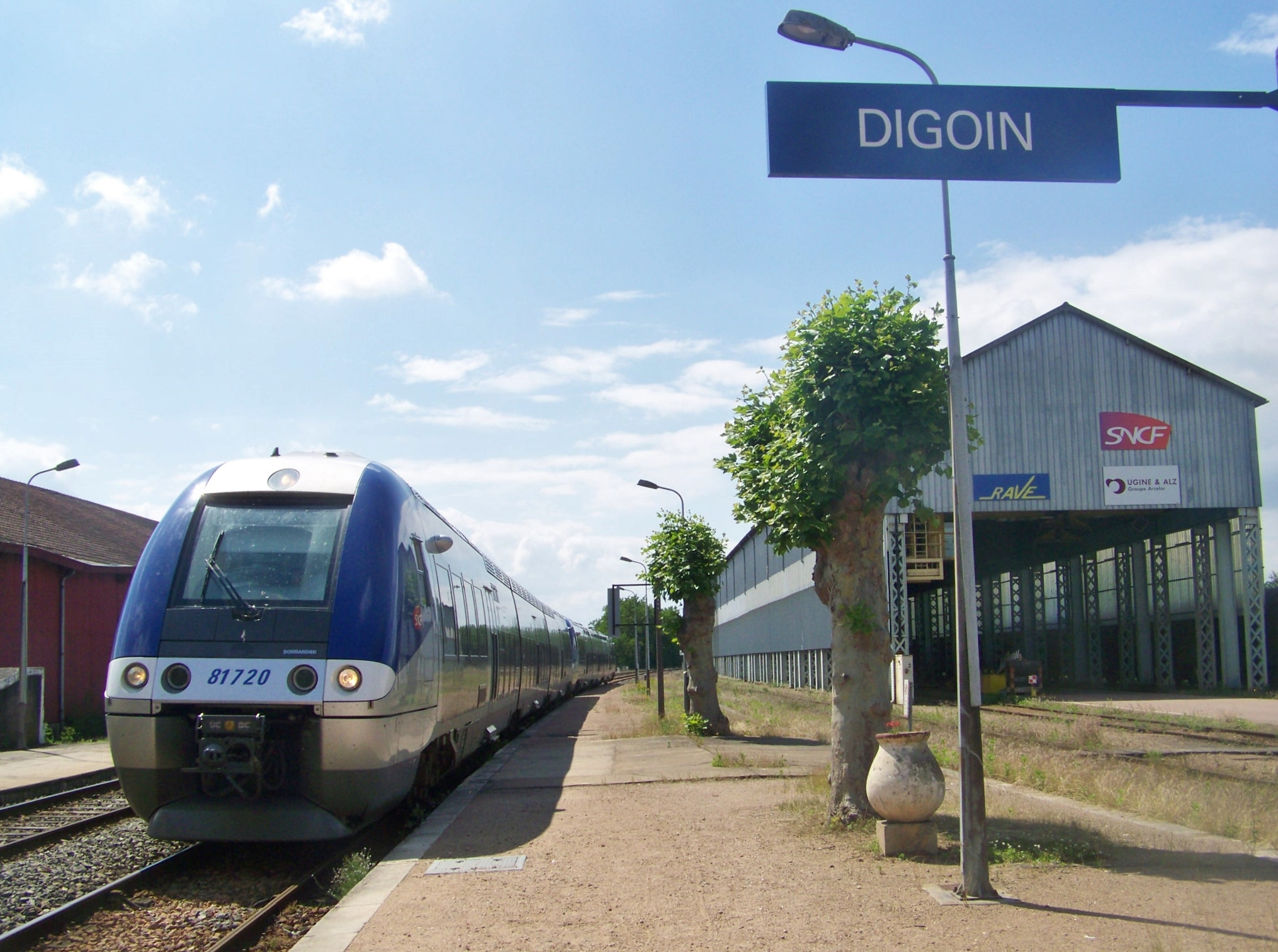 Sight of the a SNCF French regional train coming from Tours and bound for Lyon which has just entered the Burgundy region and is stopping at Digoin in Saône-et-Loire.